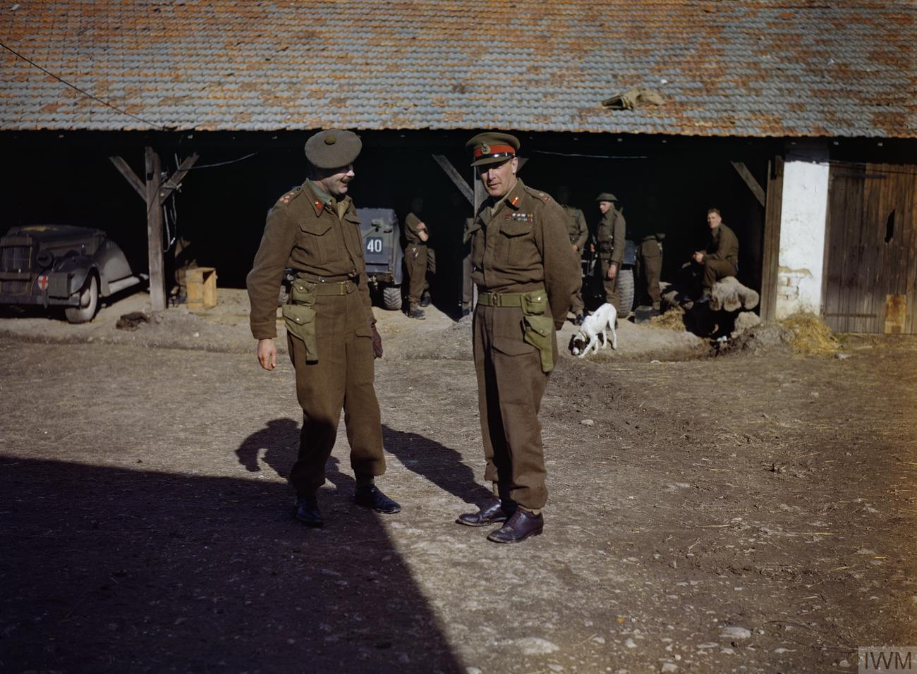 Photograph of Lt Gen Kenneth Anderson (right) with Brigadier C B McNabb, visiting forward divisional headquarters, January 1943.